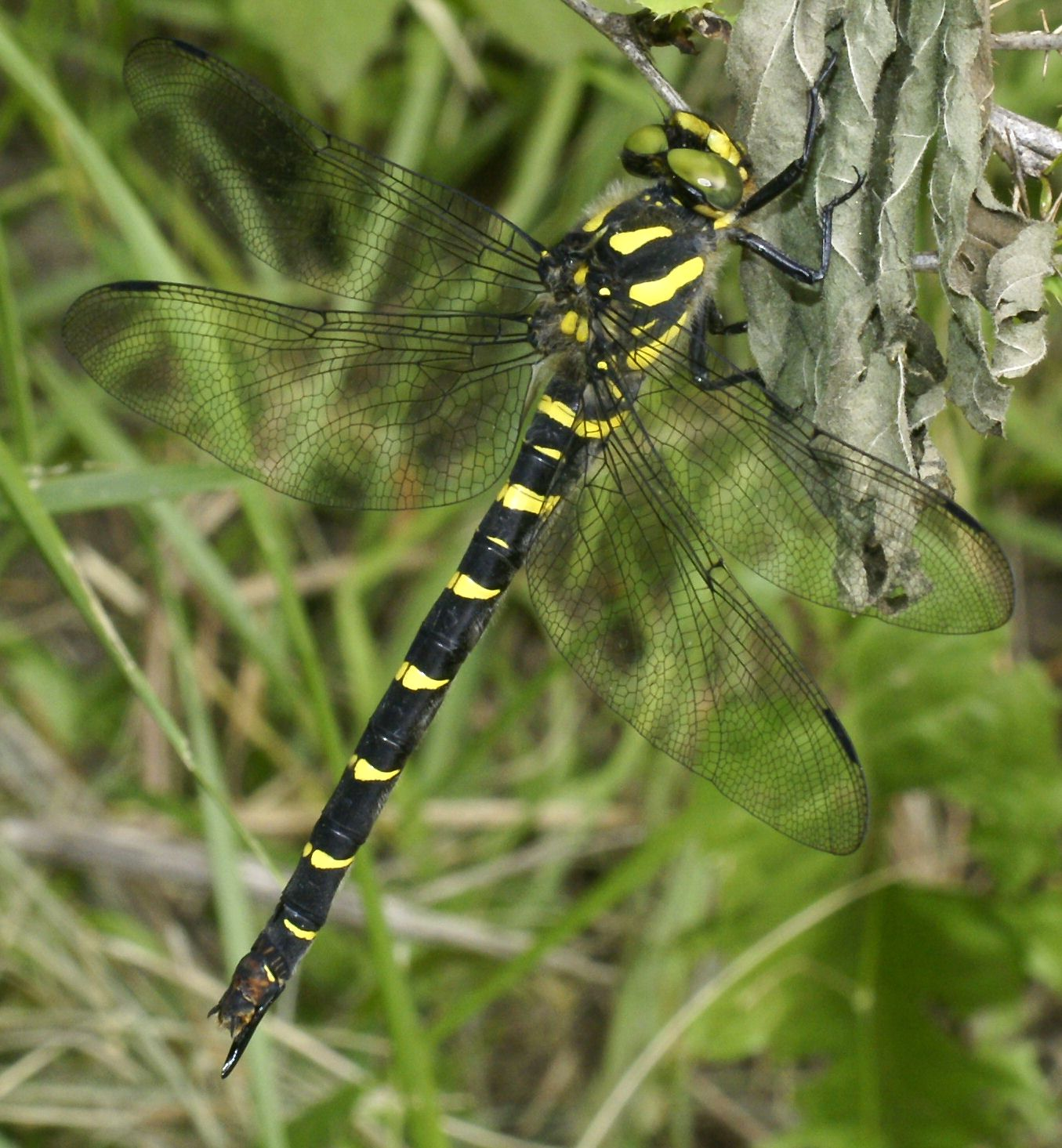 Cordulegaster bidentata, found between Kalpetran and Embd (VS, Switzerland)